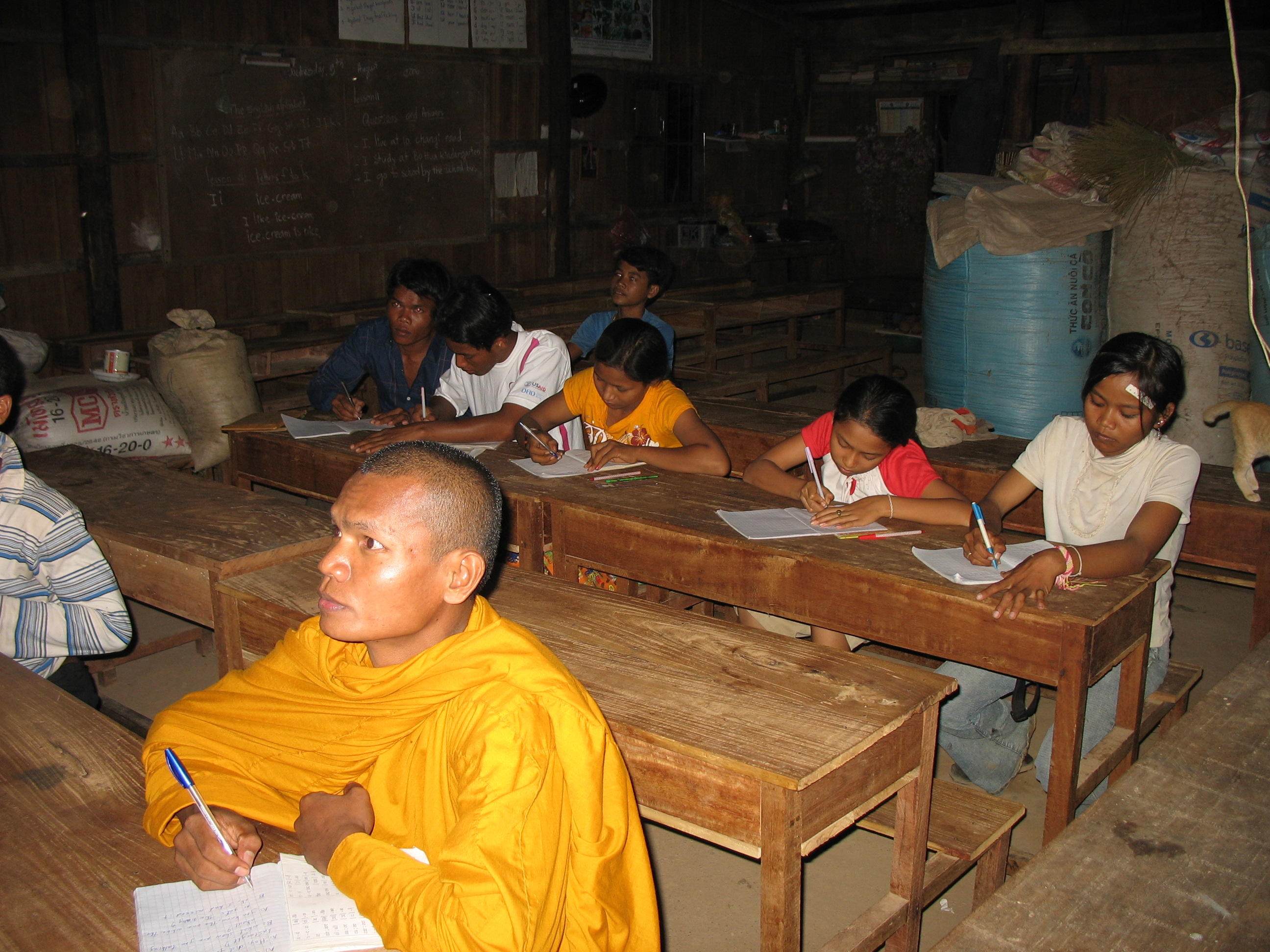 Classroom in Pursat, Cambodia